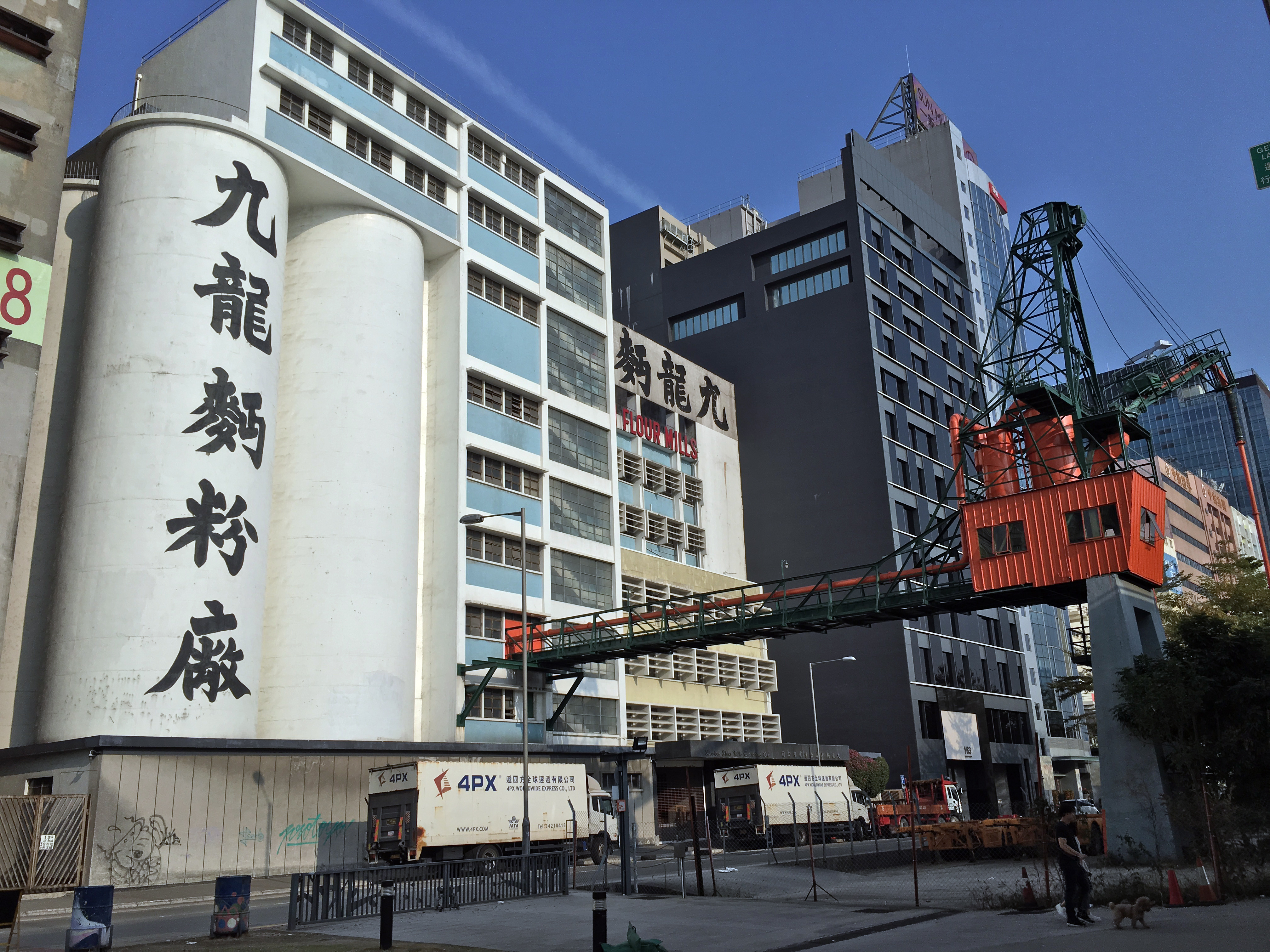 The Kowloon Flour Mills, located near the Kwun Tong Promenade, has been under operation since 1966.